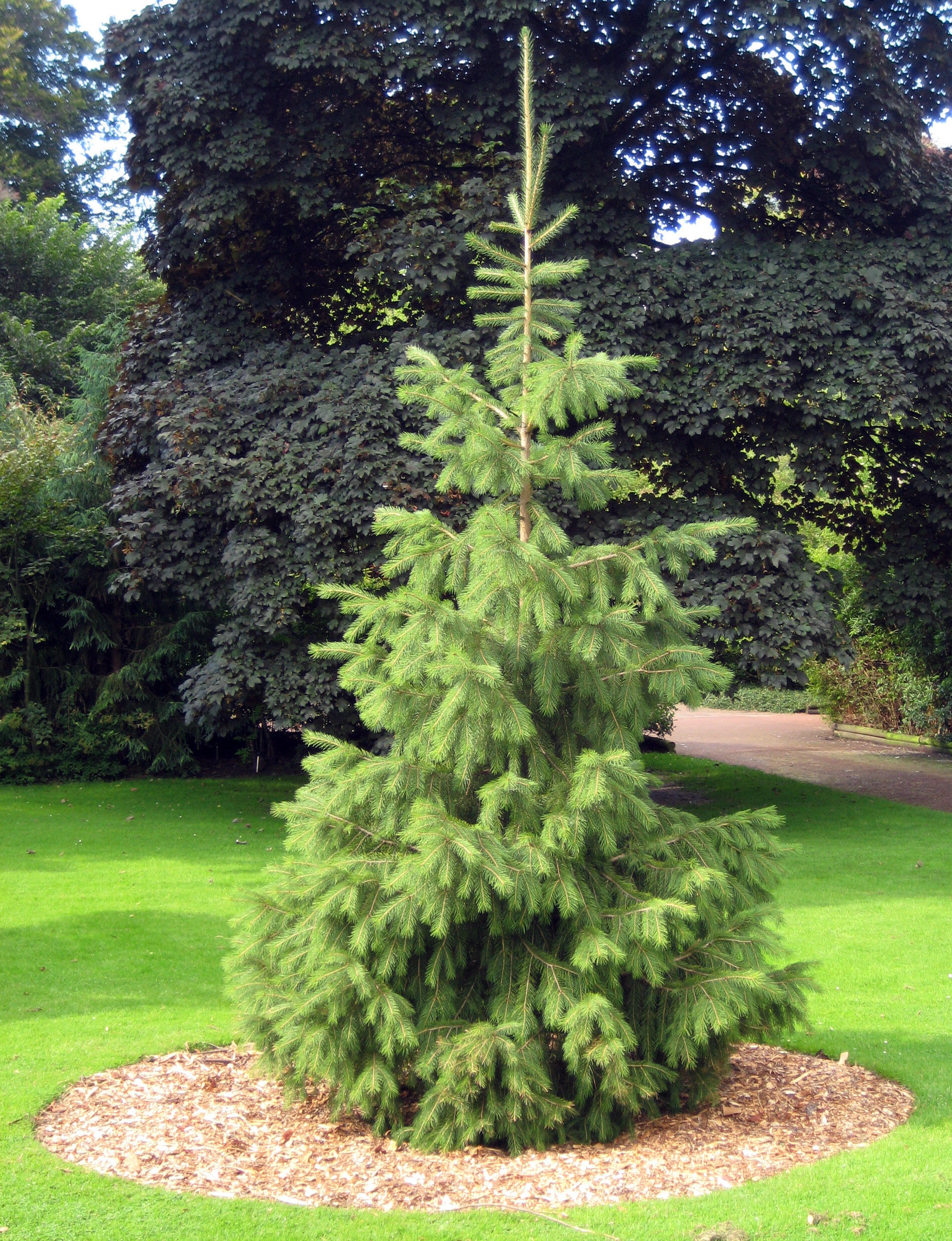 Morinda Spruce or West Himalayan Spruce